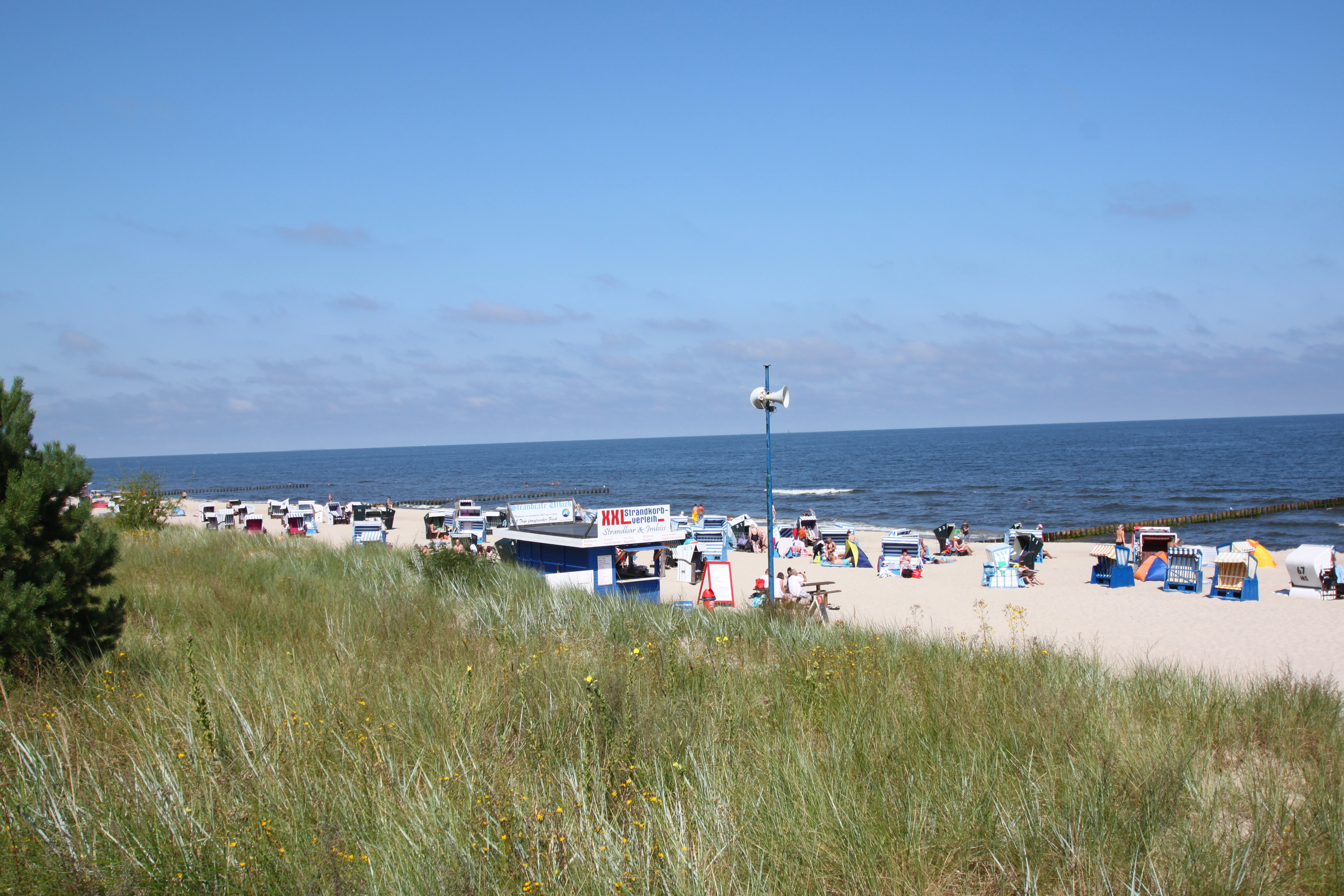 View from Uferpromenadeto beach of Ückeritz, direction northwest